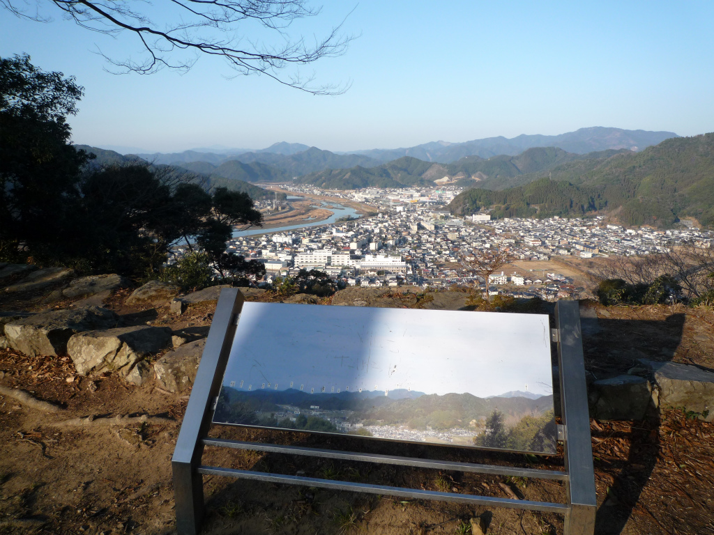 Lookout from Saiki castle ruins